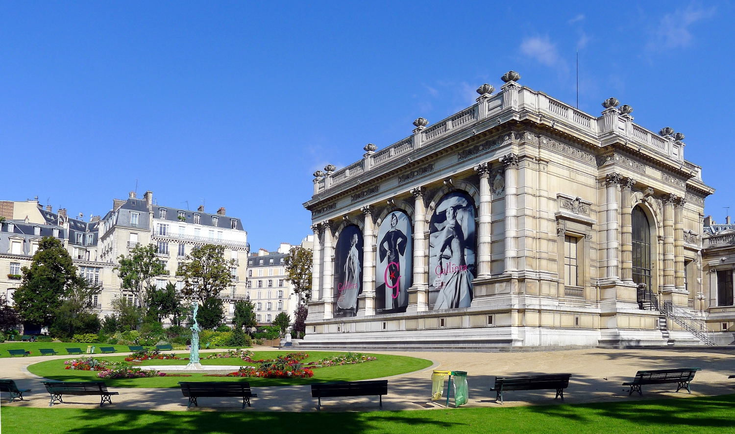 Brignole Galliera square and Galliera museum - Paris